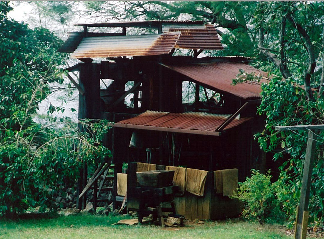 The coffee mill — at the Kona Coffee Living History Farm. Of the Kona Historical Society — Kealakekua (Captain Cook), Kona district, on the Big Island of Hawaiʻi.